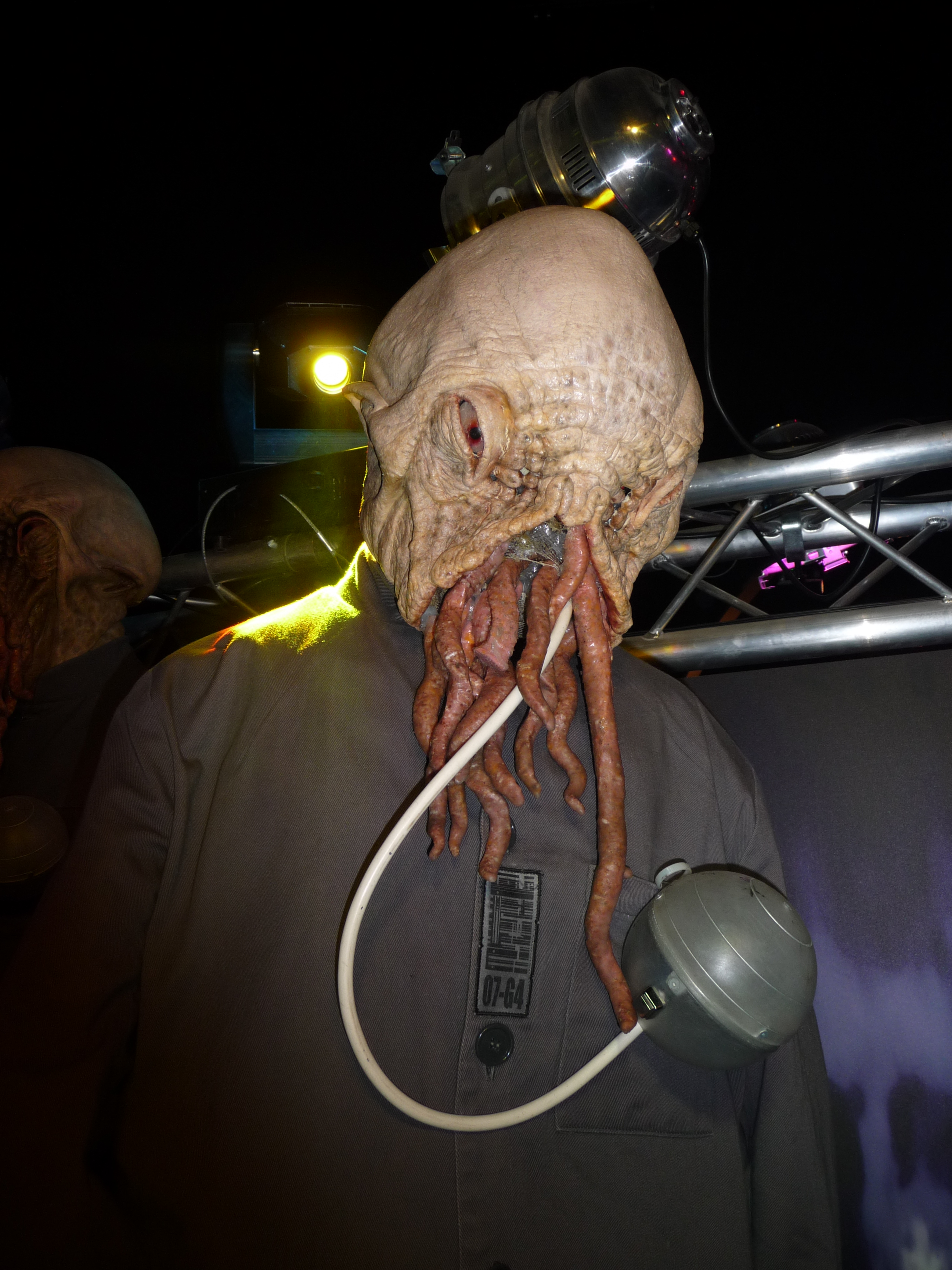 An Ood at the Dr who exhibiton in Cardiff 2010